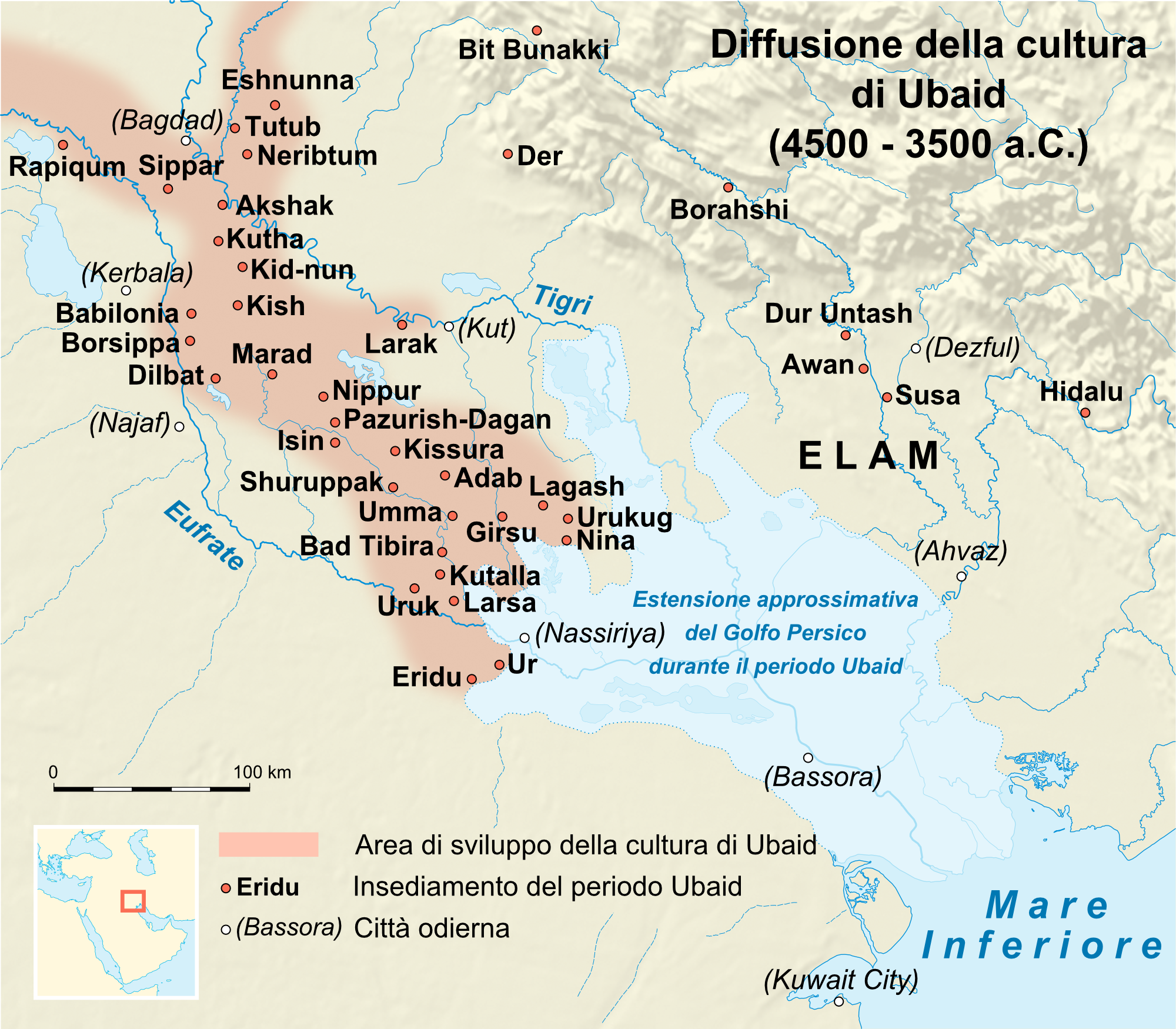 Map of sites of the Ubaid culture, English versionNote: The shaded relief is a raster image embedded in the SVG file.